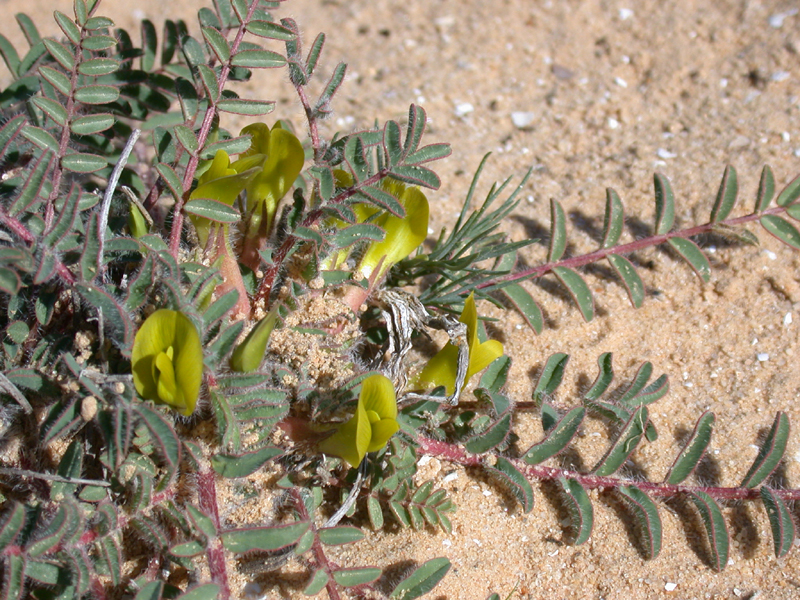 Astragalus caprinus L. (קדד באר-שבע), Northern Negev, Israel, March 3, 2007.